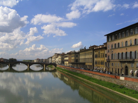 Arno river in Florence, Italy